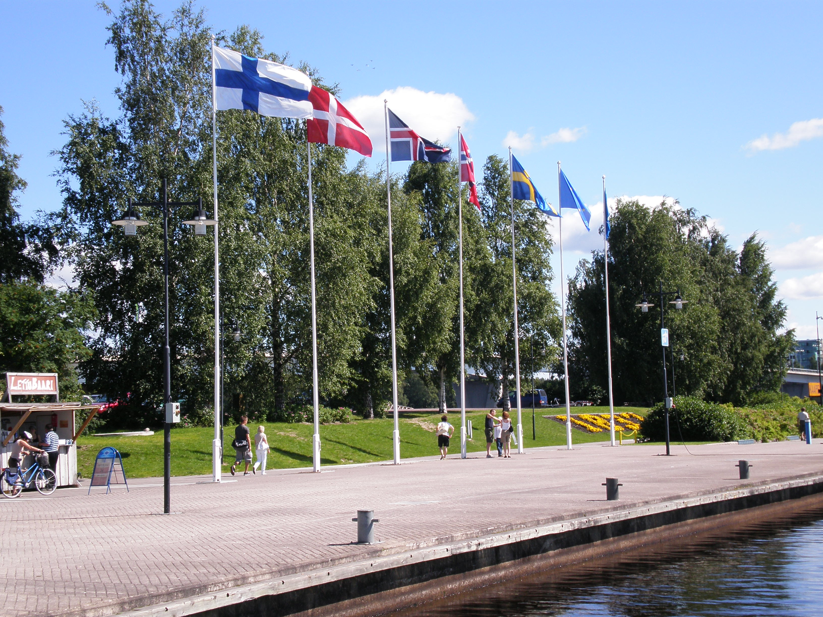 Harbour area in Jyväskylä, Finland